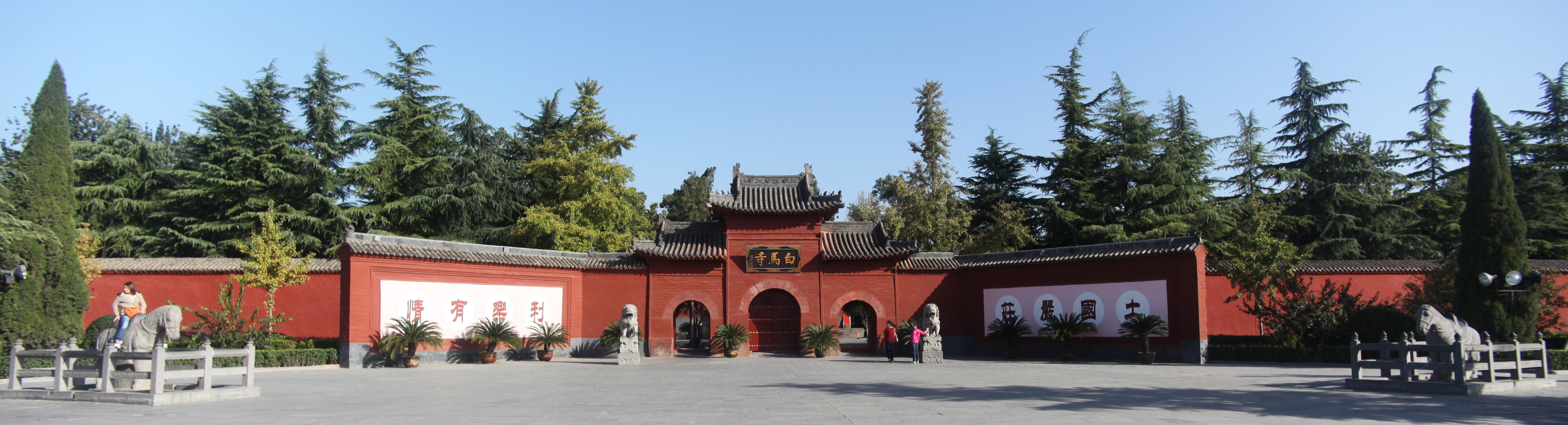 White Horse Temple panoramic with two white horse statues